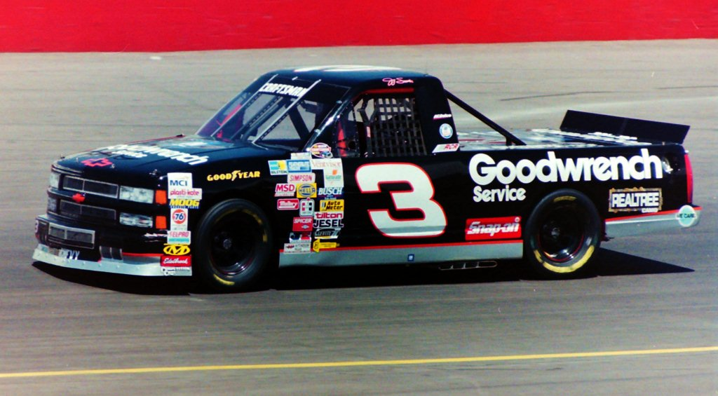 Jay Sauter drives the No. 3 Goodwrench Chevrolet at Phoenix International Raceway in 1997.